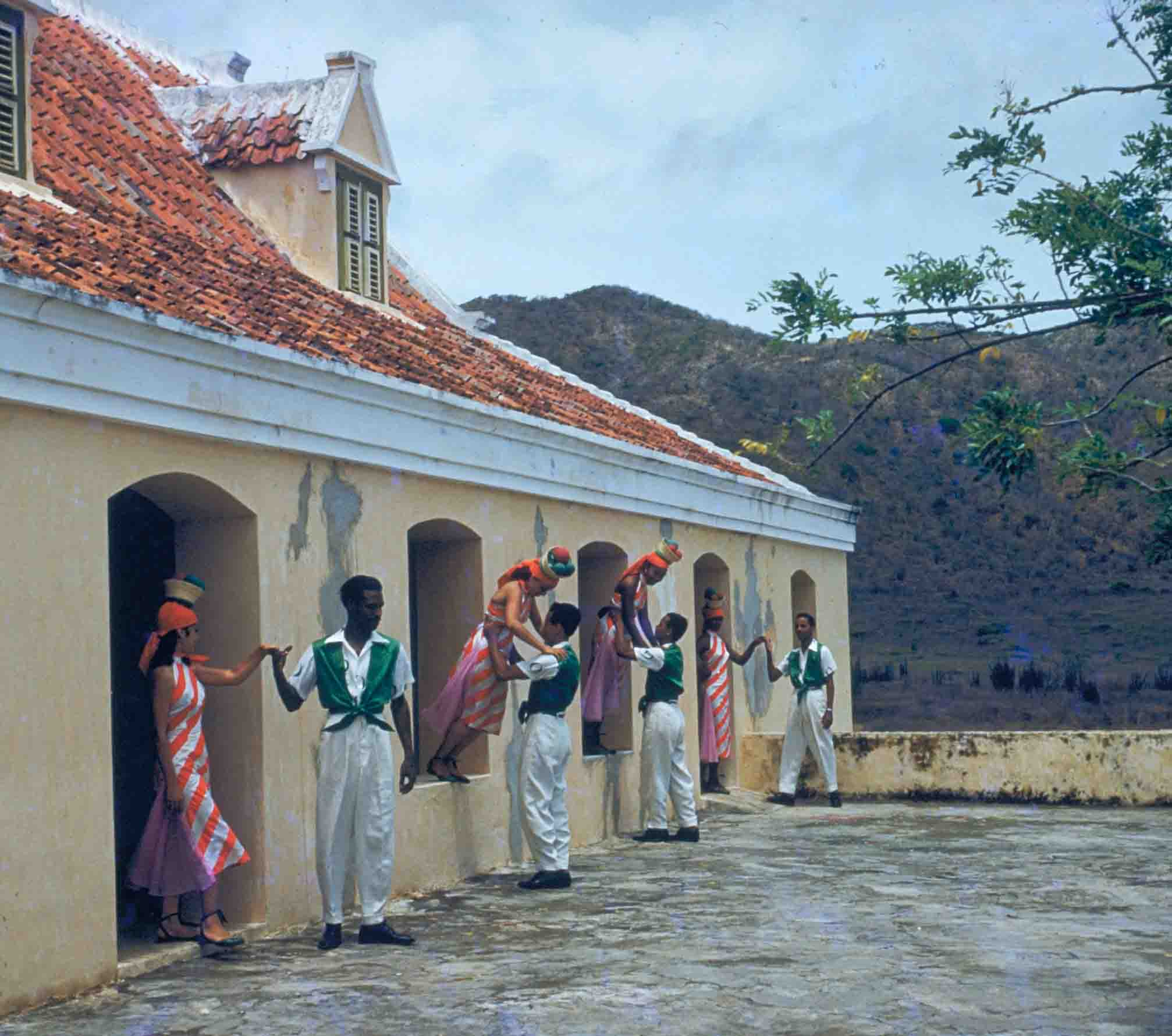 Photograph by Harry van der Made and uploaded by his son Dirk van der Made (user:DirkvdM). I assume that I can claim copyright to photographs by my (deceased) father. Correct me if I'm wrong. A Bulawaya dance in Curacao, somewhere in the 1950's probably.